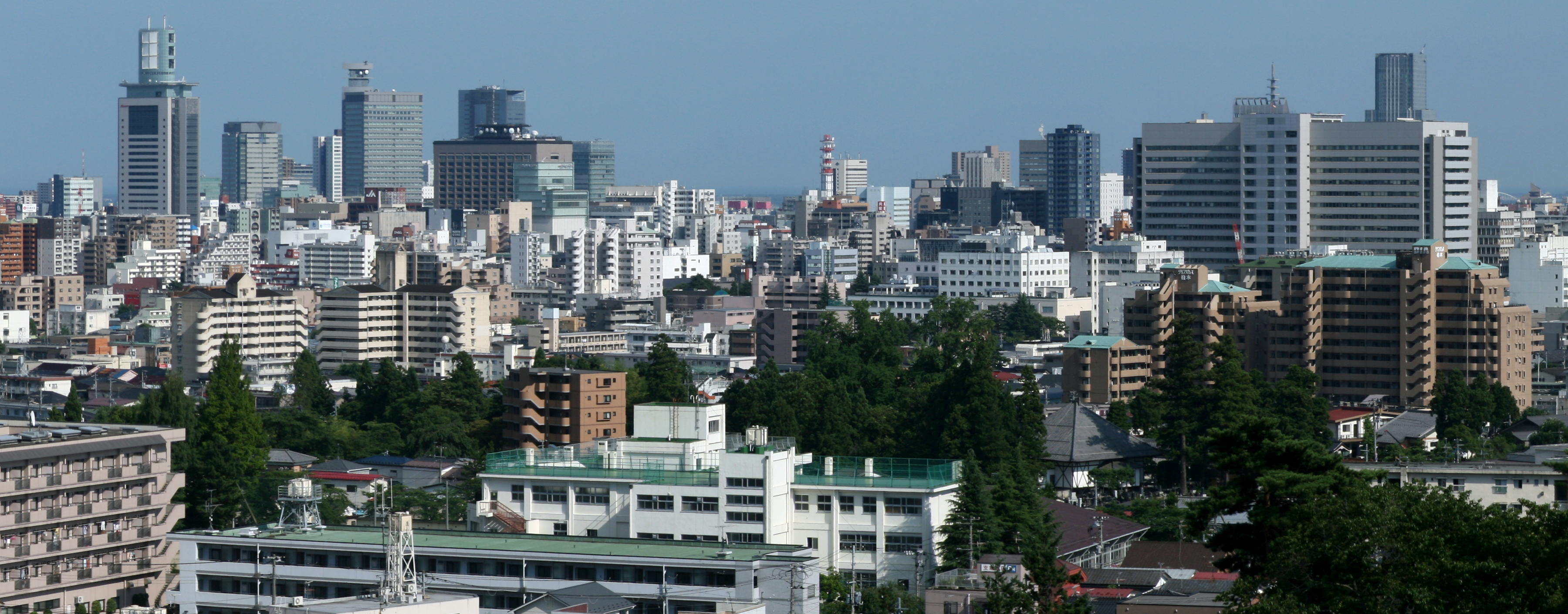 Panoramic view of Sendai City viewed from Ontake-Miyoshi Shrine at 3-chōme, Kitayama, Aoba Ward (Aoba-ku), Sendai City (Sendai-shi), Miyagi Prefecture (Miyagi-ken), Japan. Stitched 11 photographs together by Hugin, and retouched by GIMP2.